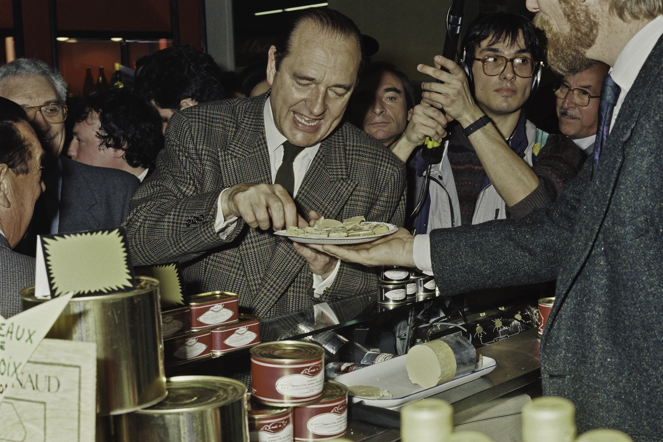 How to cite : INRA, DIST, Jean Weber